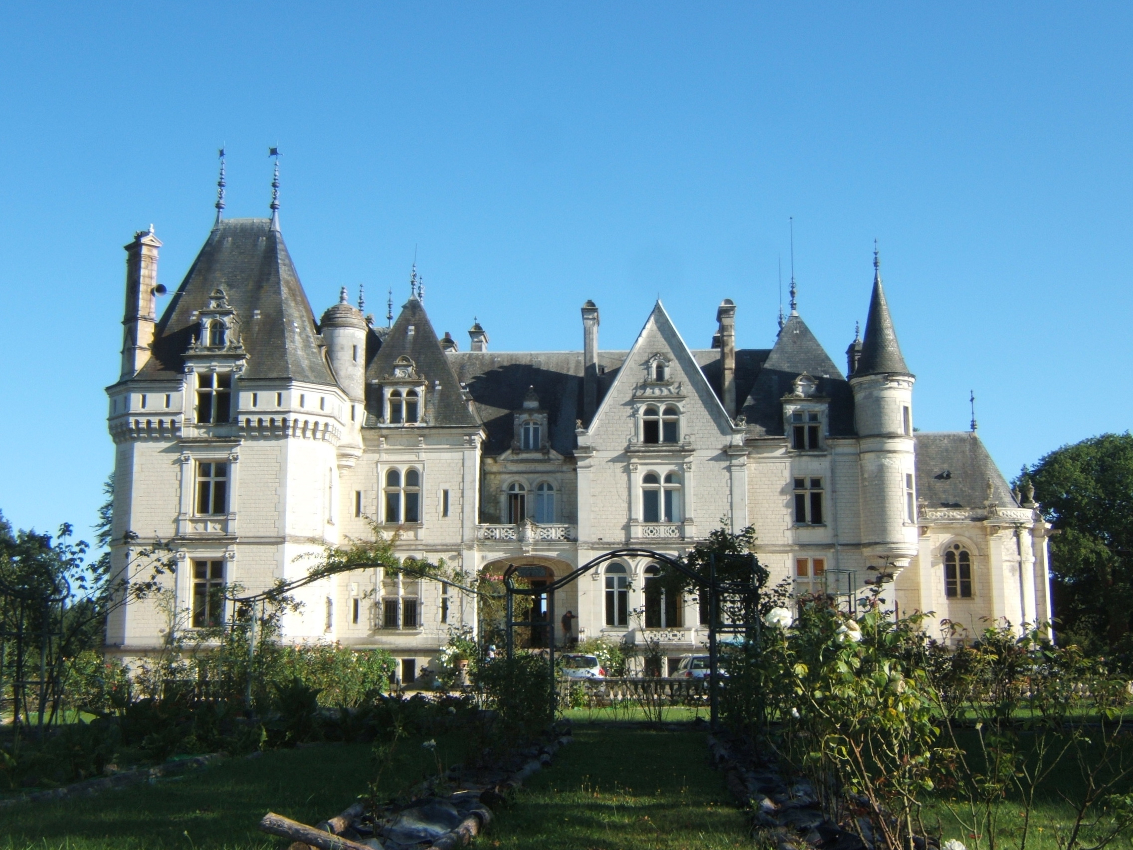 New Mayapur Hare Krishna community in the department of Indre in central France. The place is also known as Château d'Oublaisse.